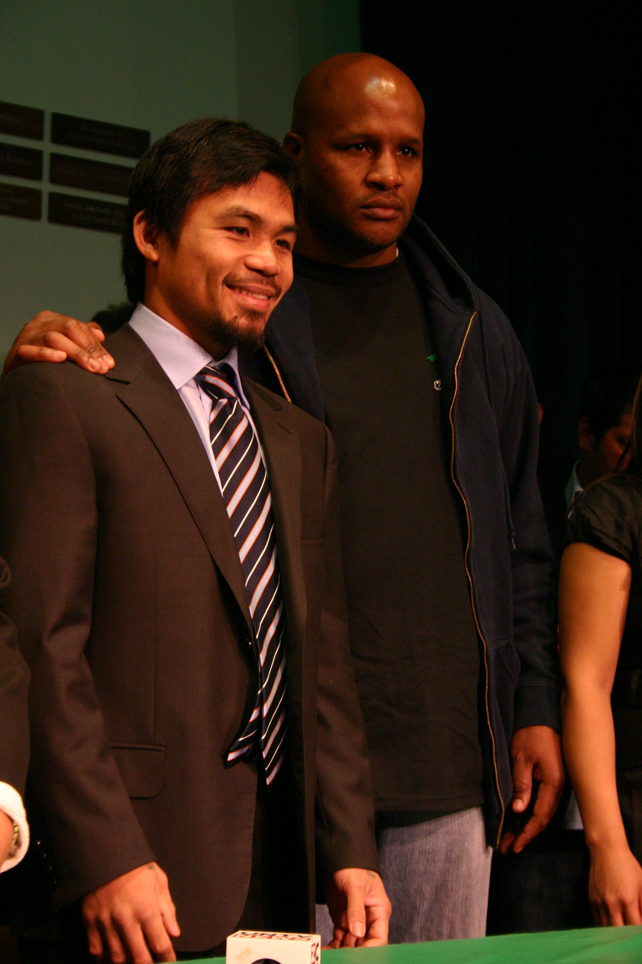 Manny Pacquiao with former heavyweight champ Michael Moorer